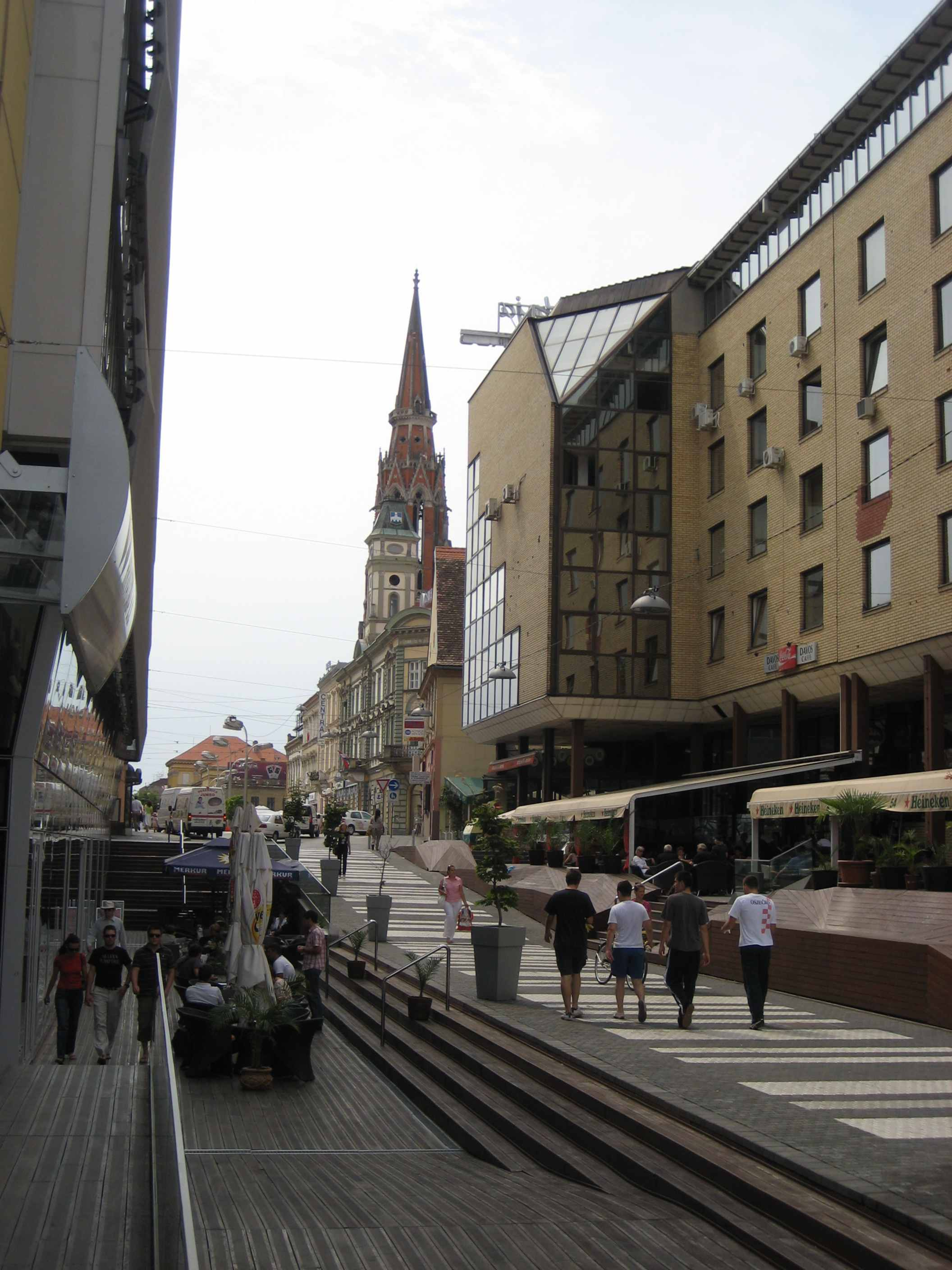 Osijek,_Croatia